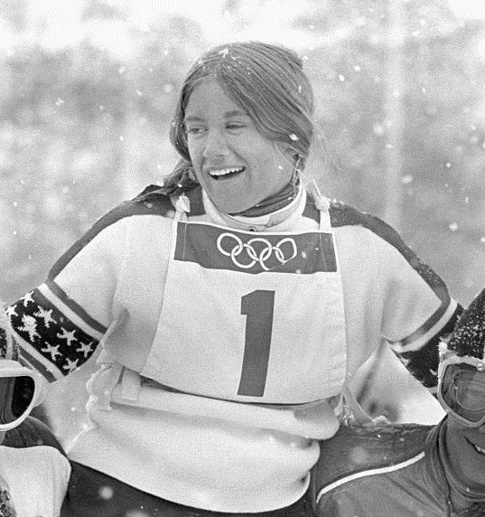 LG25 1972 Wire Photo BARBARA COCHRAN BOB RICK CHAFFEE Olympic Slalom Gold Winner